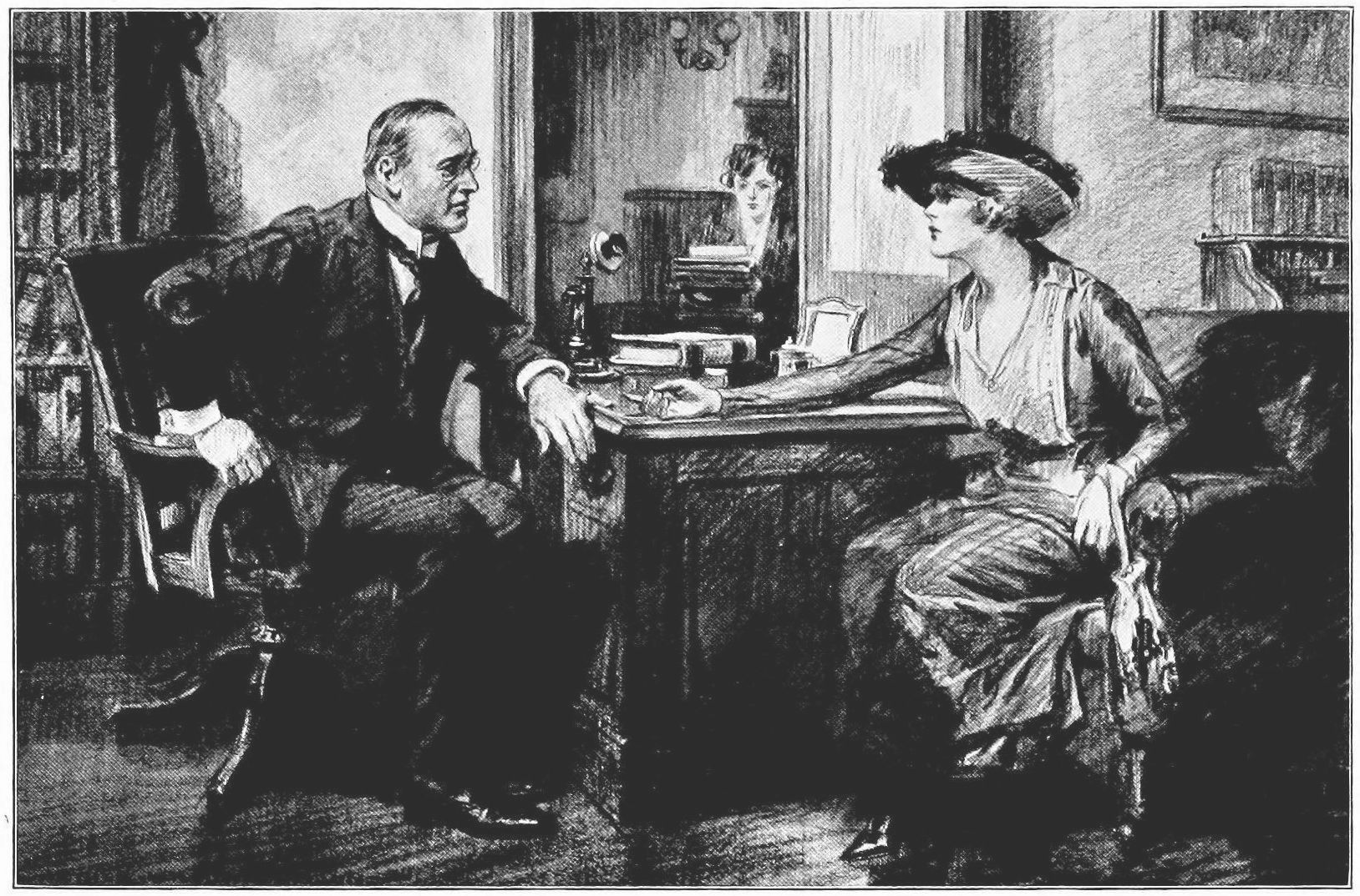 Tutt and Mr Tutt D141 lawyer-client conference